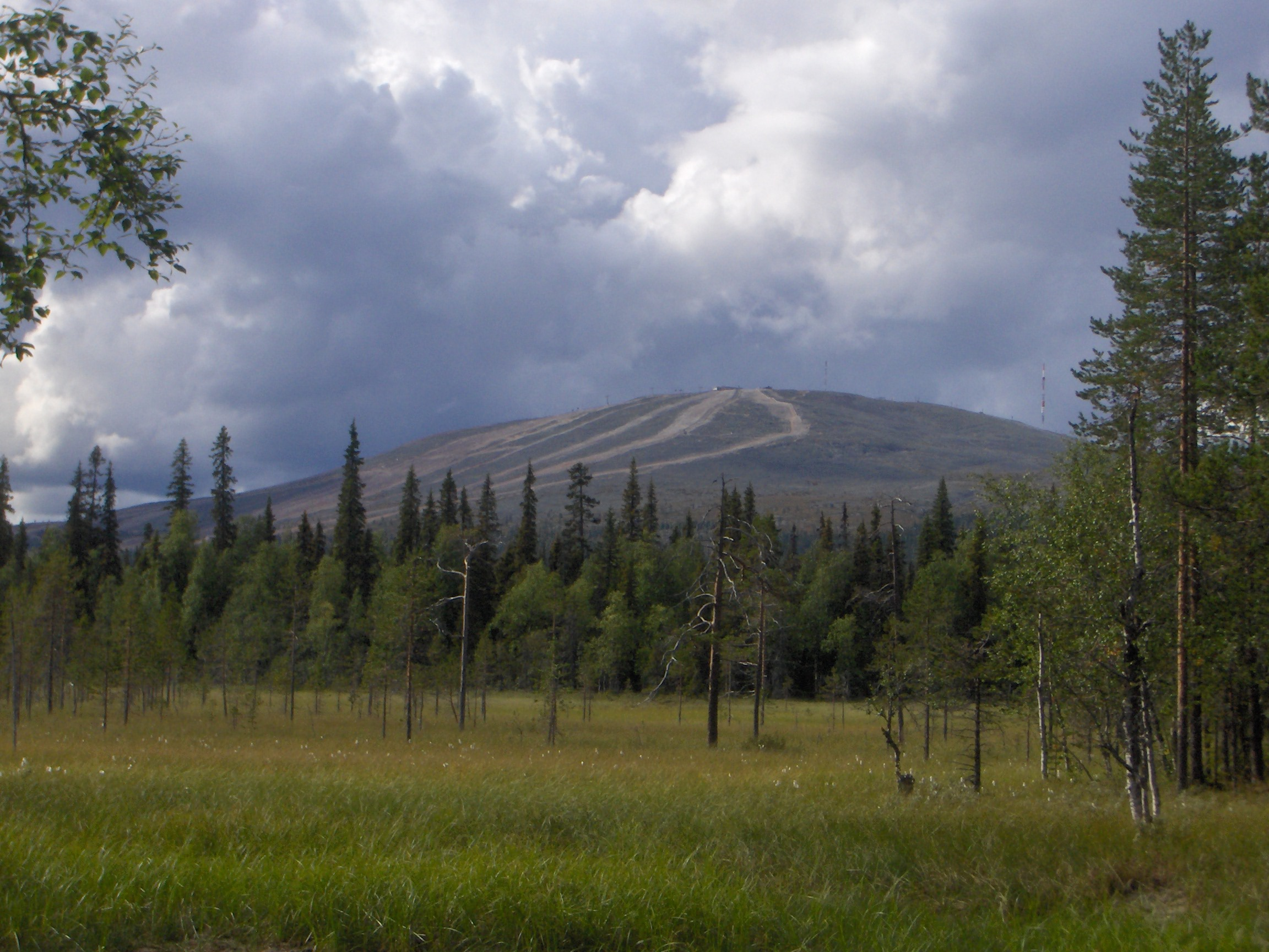 Yllästunturi from east (Lauttasvuoma)